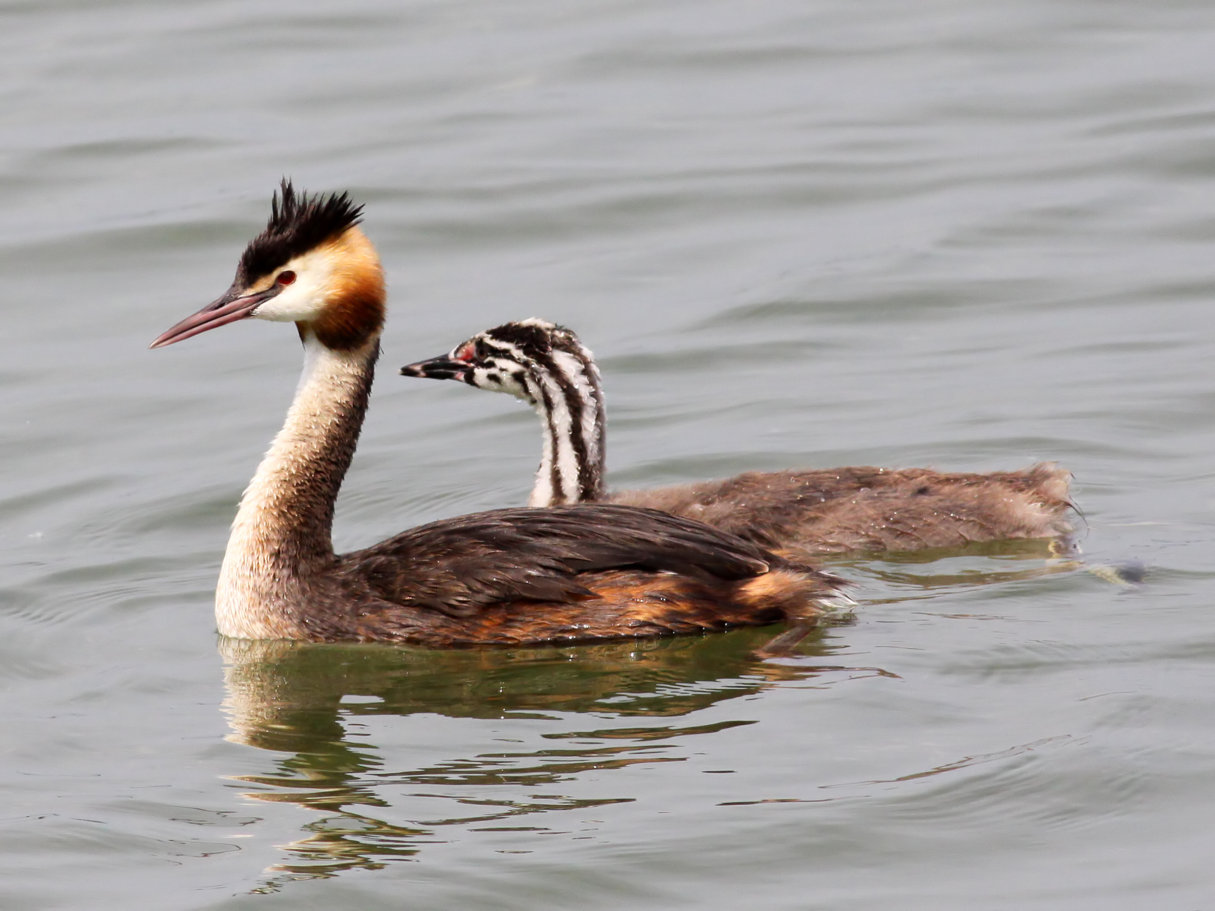 Great Crested Grebe (Podiceps cristatus) Photo taken on the Rhine Delta, Höchster Ried, Vorarlberg in Austria.